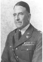 Blanton C. Winship, soldier of the US Army and Governor of Puerto Rico; Official Military photo of Blanton Winship